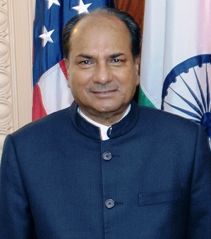 A.K. Antony, former chief minister of Kerala and India's Defence Minister.